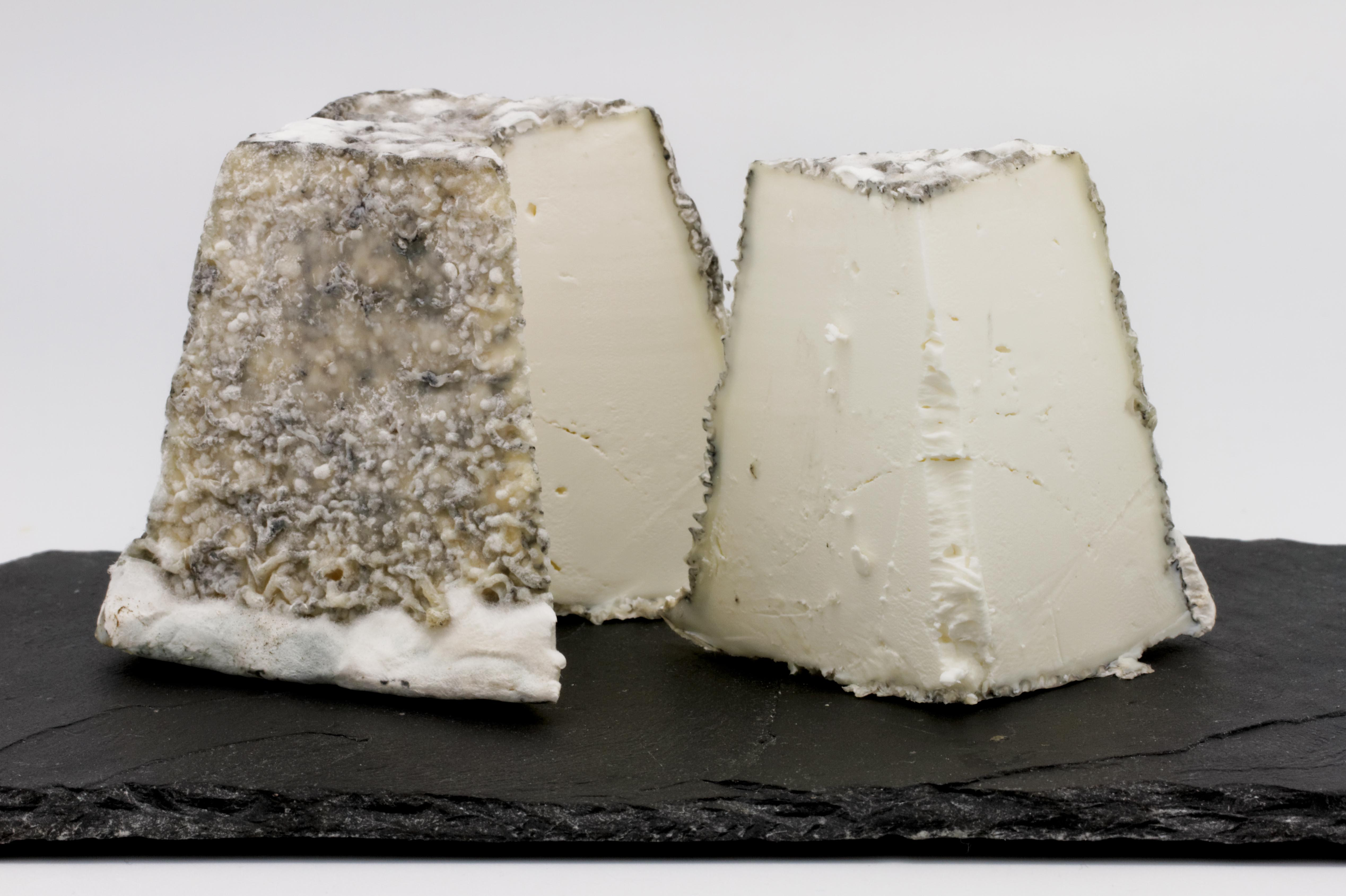 Valençay